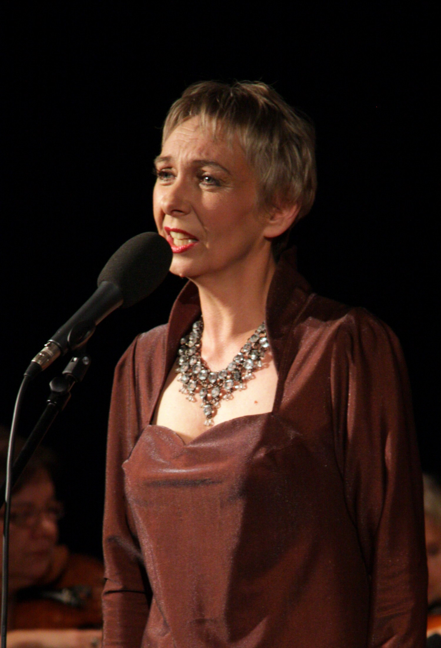 Maria Meyer - Polish theater actress. XVII MFM them. K. Jamroz in Busko-Zdroj, 9 July 2011.